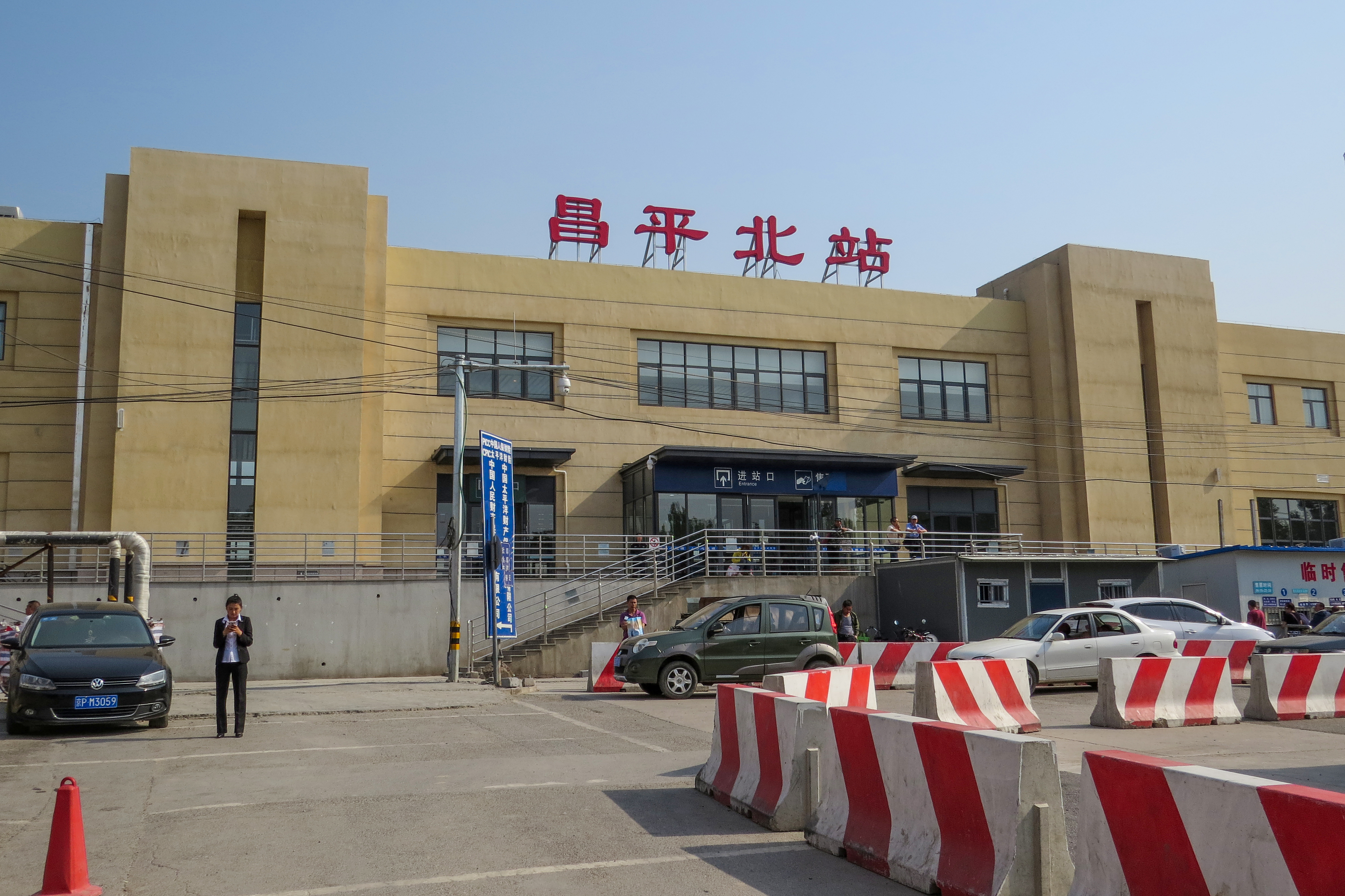 Finally got there. Most trains to Chifeng and Tongliao were moved to this remote station since 1 November 2016, and Changpingbei becomes the new "Chifeng South Railway Station".